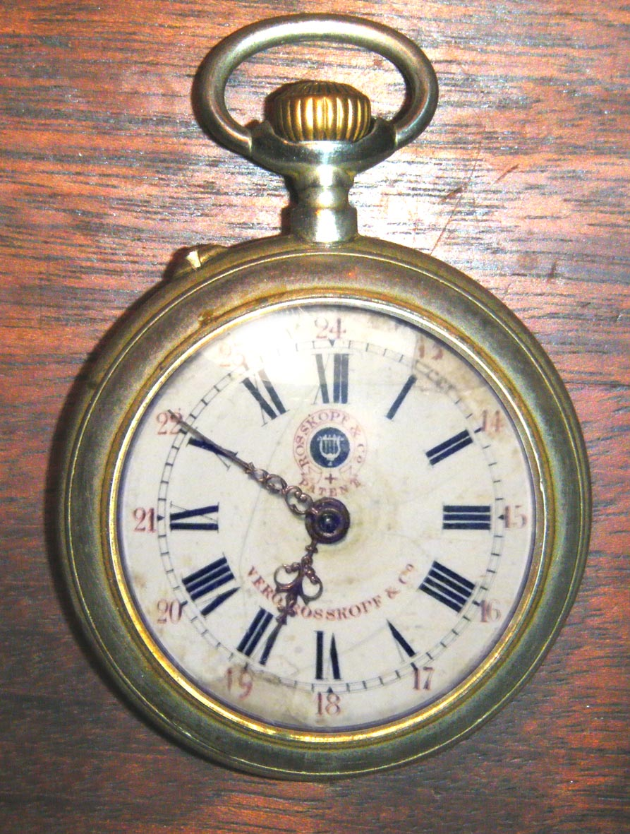 Vintage pocket watch (Roskopf)